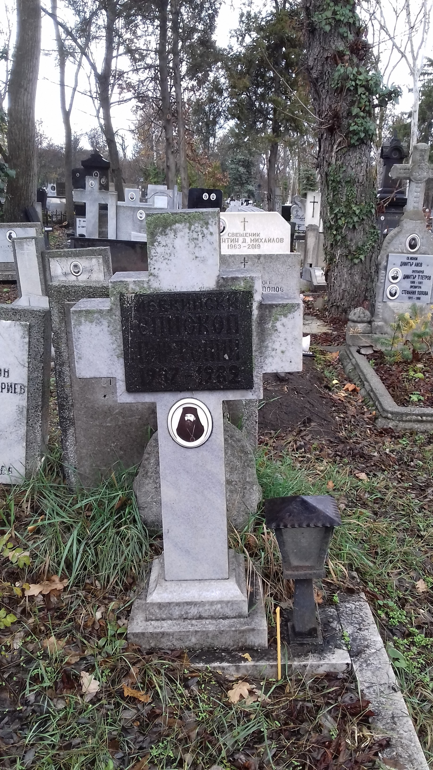 Parthenius of Leuca Grave